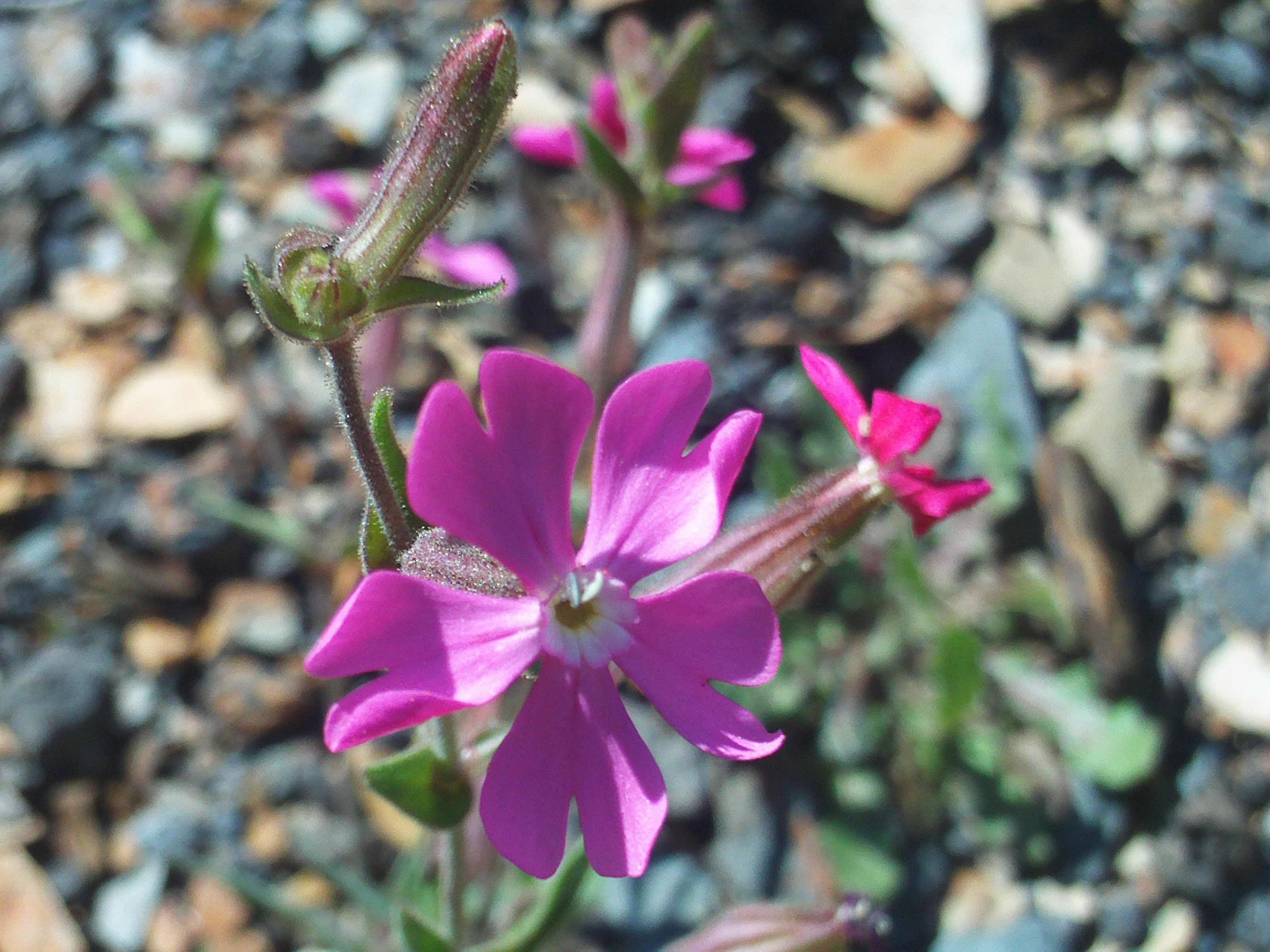 Silene stockenii flowers closeup, Dehesa Boyal de Puertollano, Spain